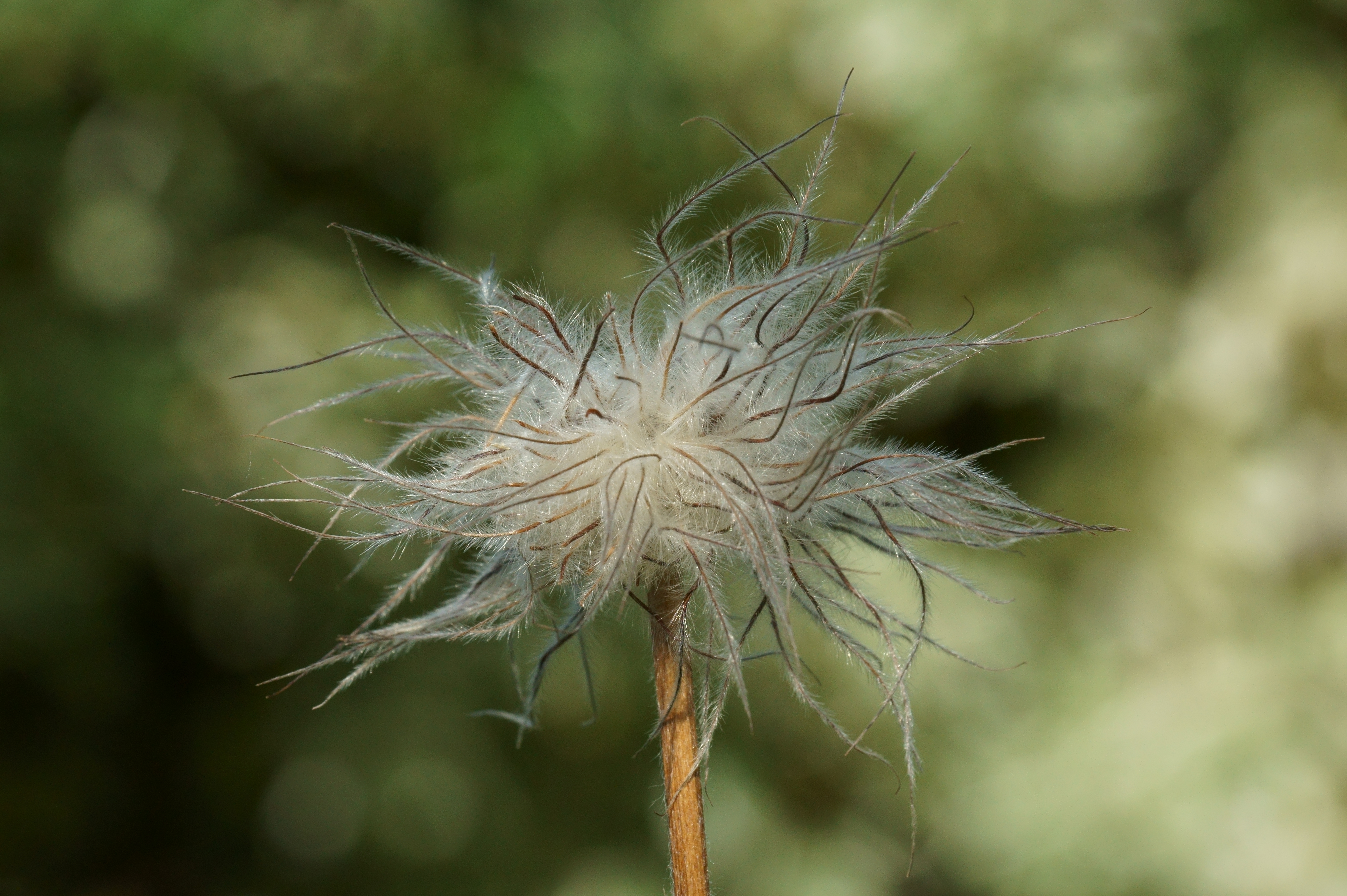 Withered blossom of a pulsatilla vulgaris.